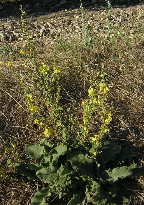 Verbascum sinuatum Author : user:Aroche Source : own work